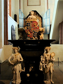 Cenotaph of Frederik I of Denmark in Schleswig Cathedral by Cornelis Floris